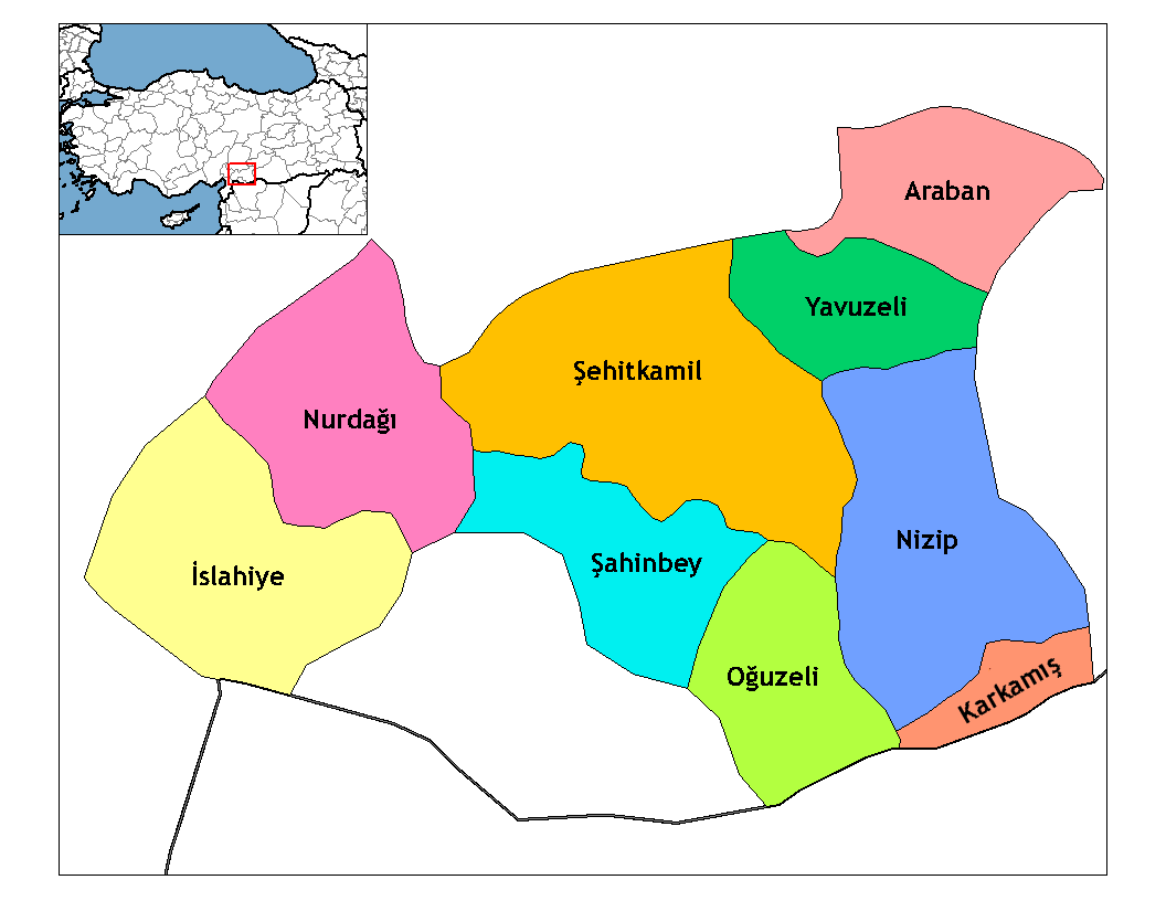 Map of the districts of Gaziantep province in Turkey. Created by Rarelibra 20:55, 1 December 2006 (UTC) for public domain use, using MapInfo Professional v8.5 and various mapping resources. Edited by One Homo Sapiens Corrected text where İ,Ş,ı,ğ,or ş occurs in name. Source: [statoids-com]. Increased font size and enhanced color differences among adjacent districts.